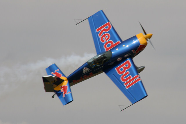 Red Bull Extra 300S, aerobatic two-seat monoplane aircraft, piloted by Peter Besenyei. Kraków Air Show 2007.